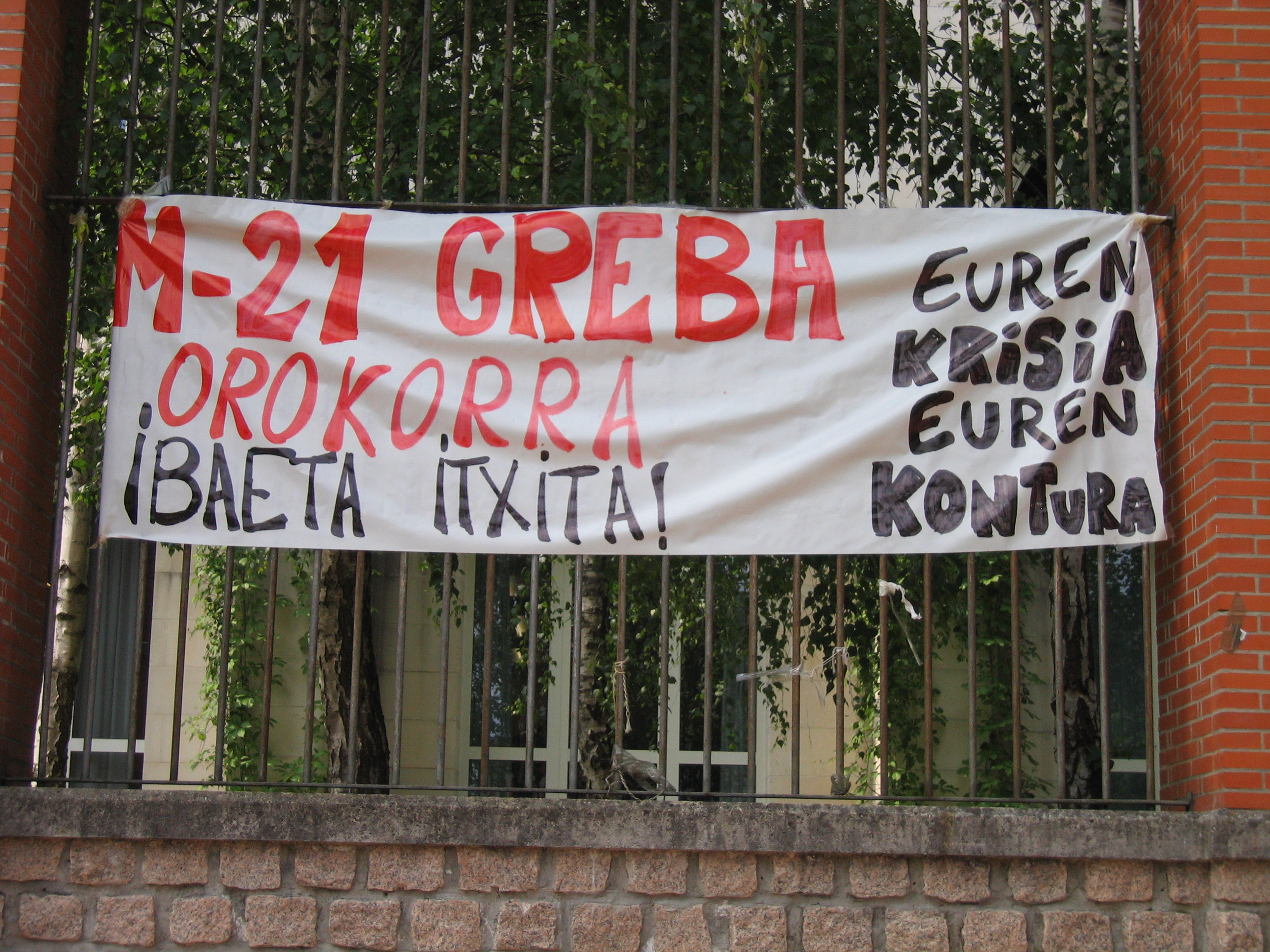 strike action message 21-5-2009 hego euskal herria basque country